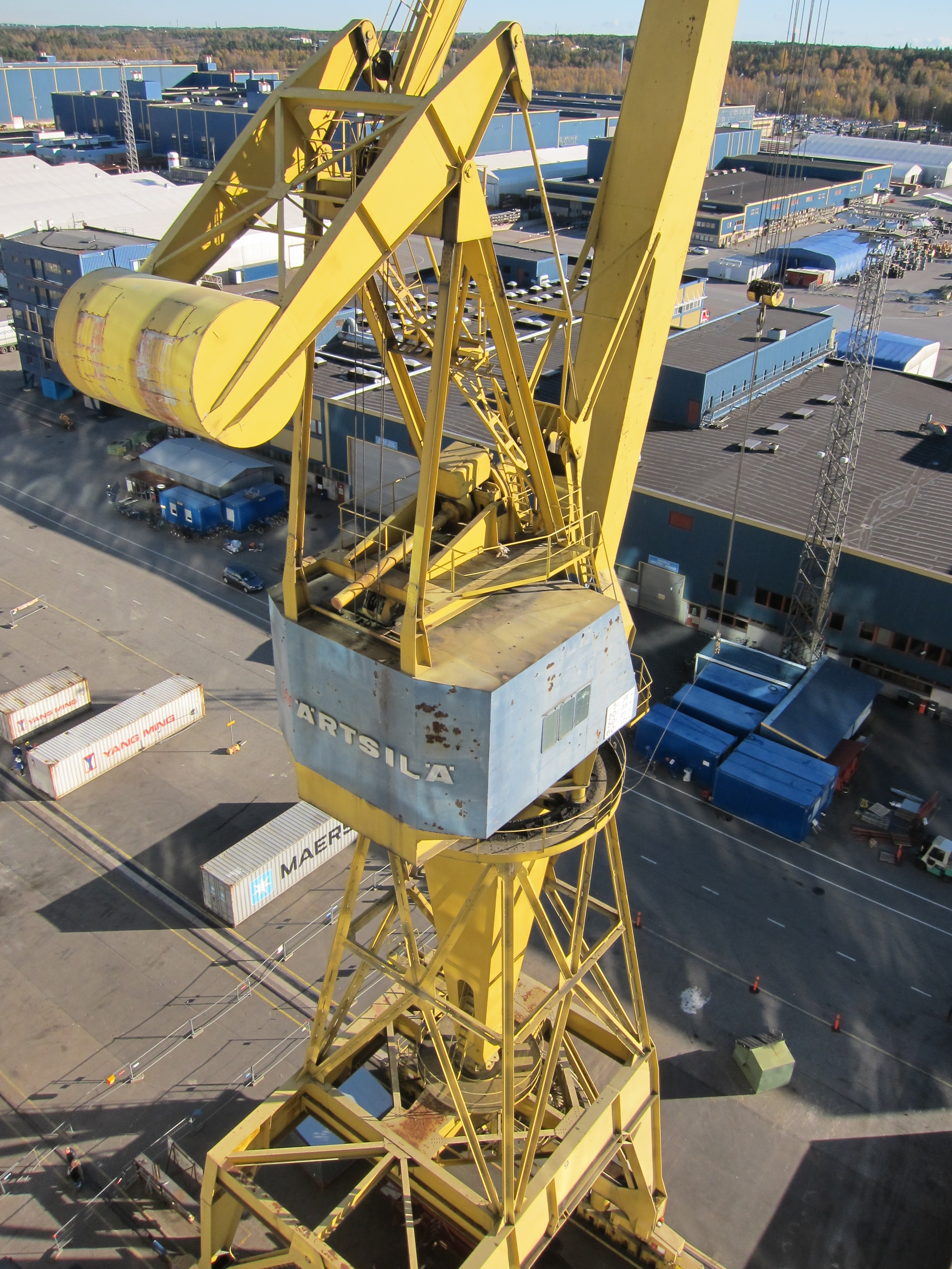 View from MS Allure of the Seas at STX Europe shipyard Turku, Finland.